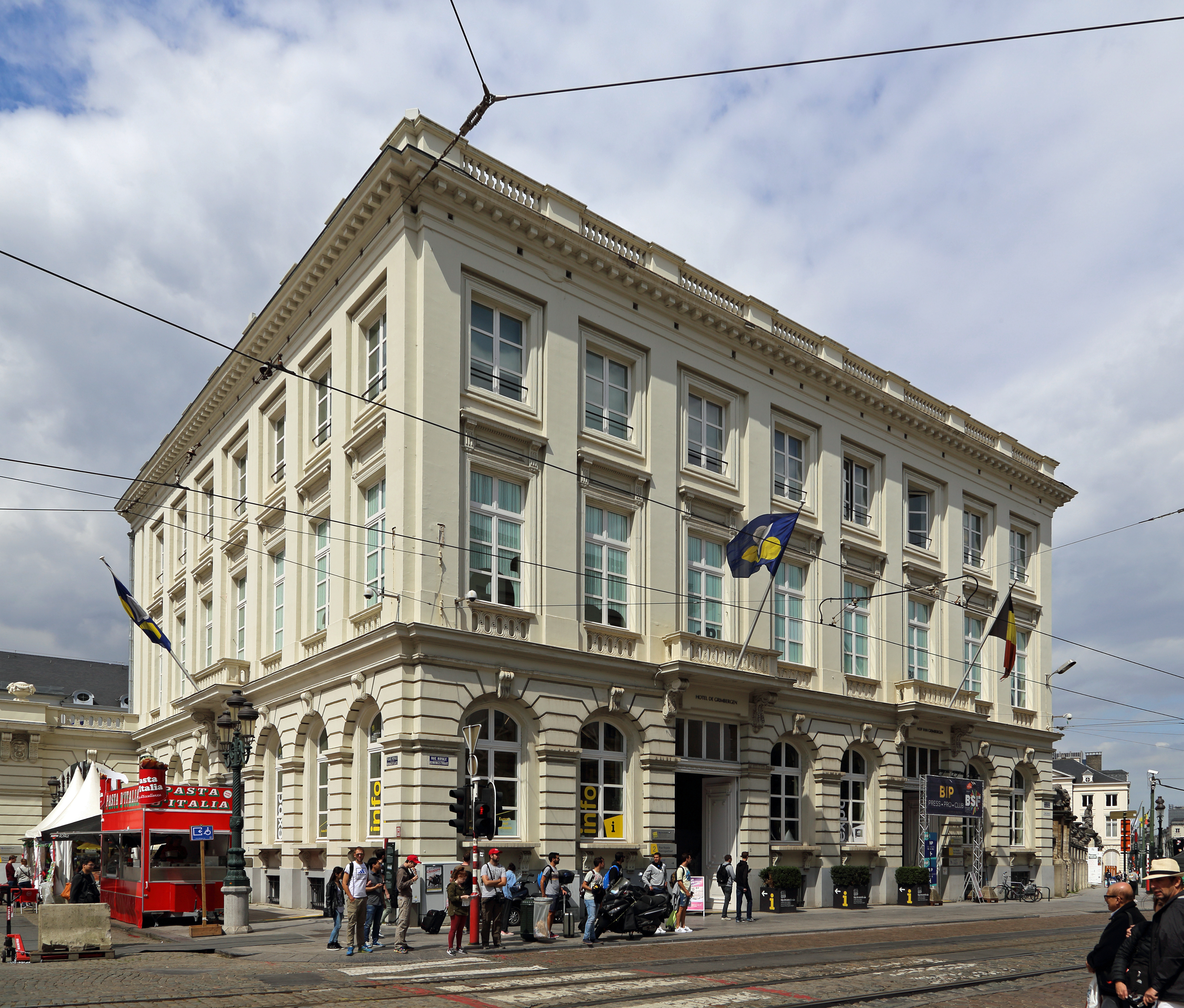 Brussels (Belgium): the Hôtel de Grimbergen